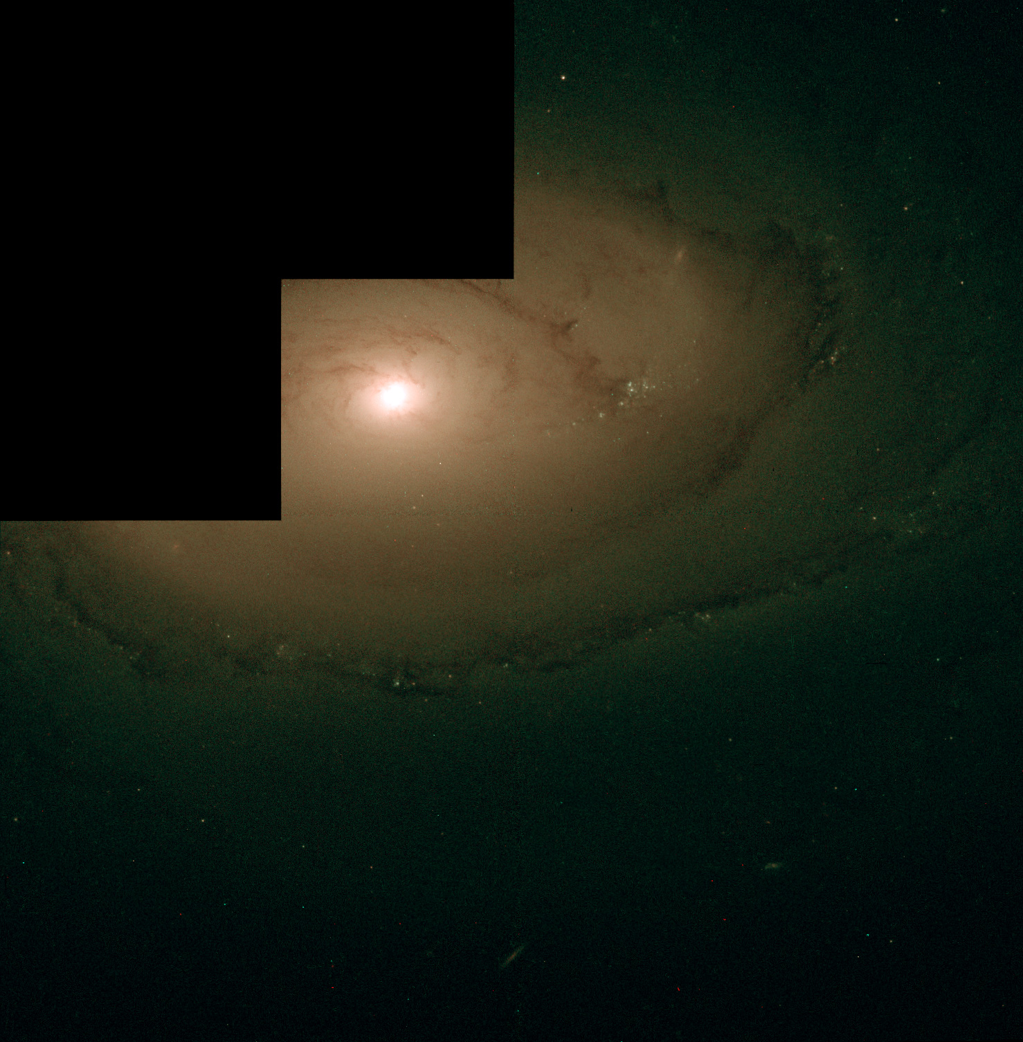 The nearby spiral galaxy NGC 4450 is one of the galaxies in which Hans-Walter Rix and collaborators have identified a supermassive black hole. The picture reveals nothing unusual in the galaxy centre. Yet, the group of astronomers have measured wildly rotating gas in a disk around the centre of the galaxy with the STIS instrument onboard Hubble.